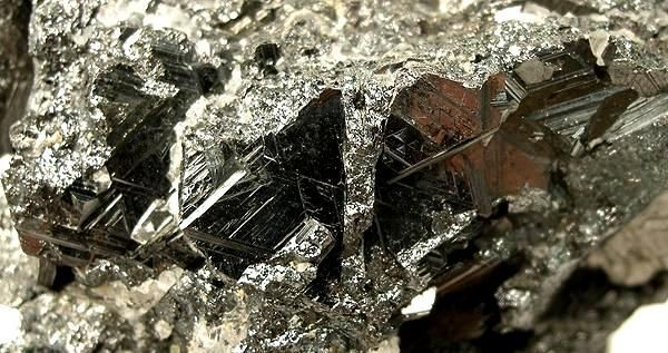 Geikielite Locality: Maxwell quarry, Chelsea, Les Collines-de-l'Outaouais RCM, Outaouais, Québec, Canada (Locality at ) Size: 7.5 x 6 x 4 cm. Geikielite is a rare magnesium titanium oxide, found usually in microcrystals or masses. It is the magnesium analogue of Ilmenite. Here we have a huge mass of geikielite about 3 inches in size with distinct big crystals over 1 cm in size embedded within it. It shows metallic lustre and some sharp twinning. This has been confirmed via communications with several collectors of rarities and the Royal Ontario Museum. Ex. Philadelphia Academy of Sciences Collection.